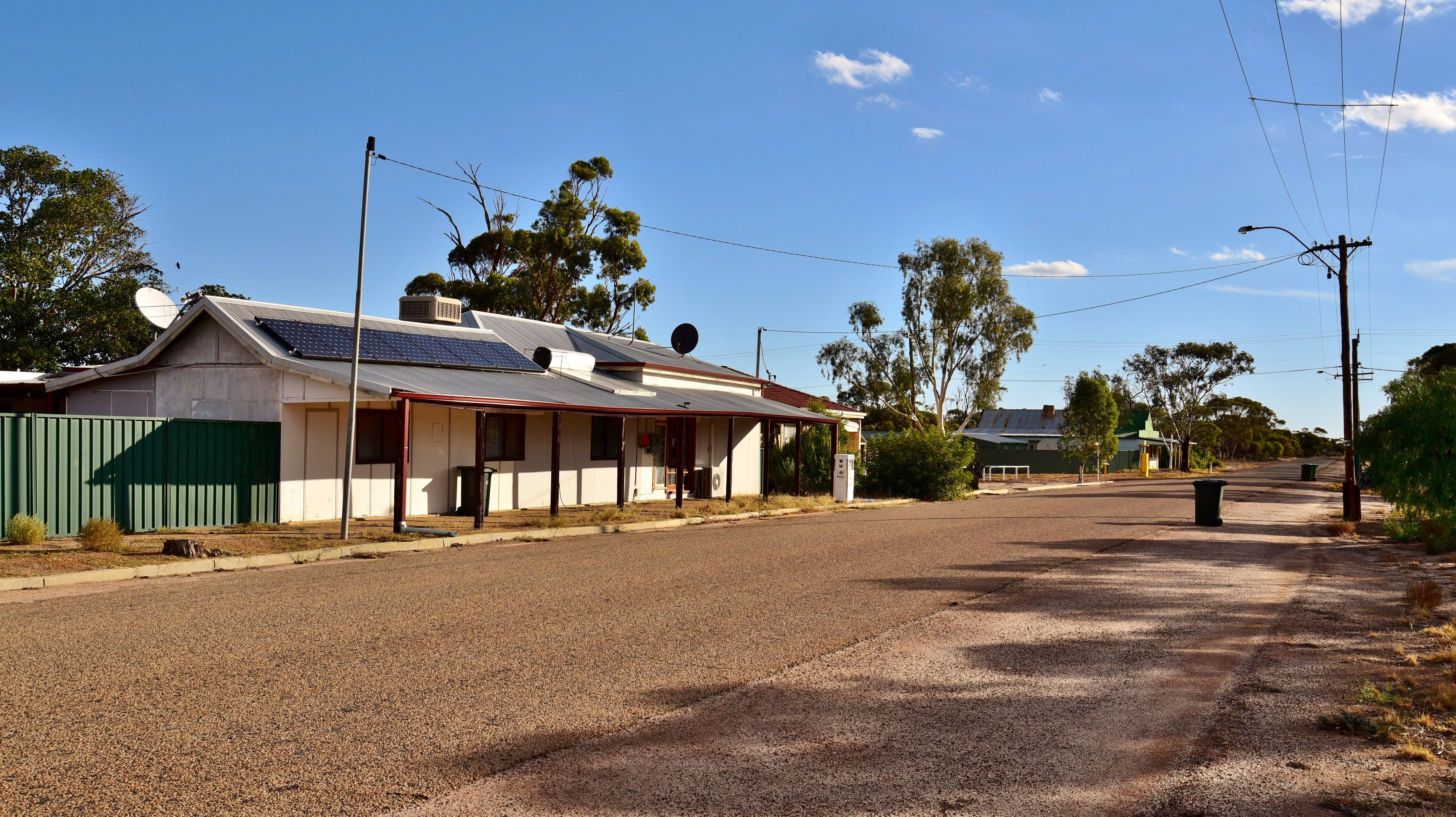 View of Hammond Street, the main street of Gabbin, Western Australia